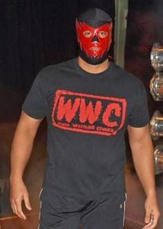 Professional wrestler Ray González under the masked persona known as "El Cóndor".